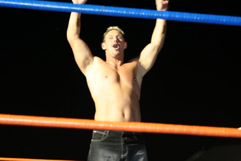 Professional wrestler Scotty 2 Hotty (real name Scott Garland) at a 2CW show in August 2008